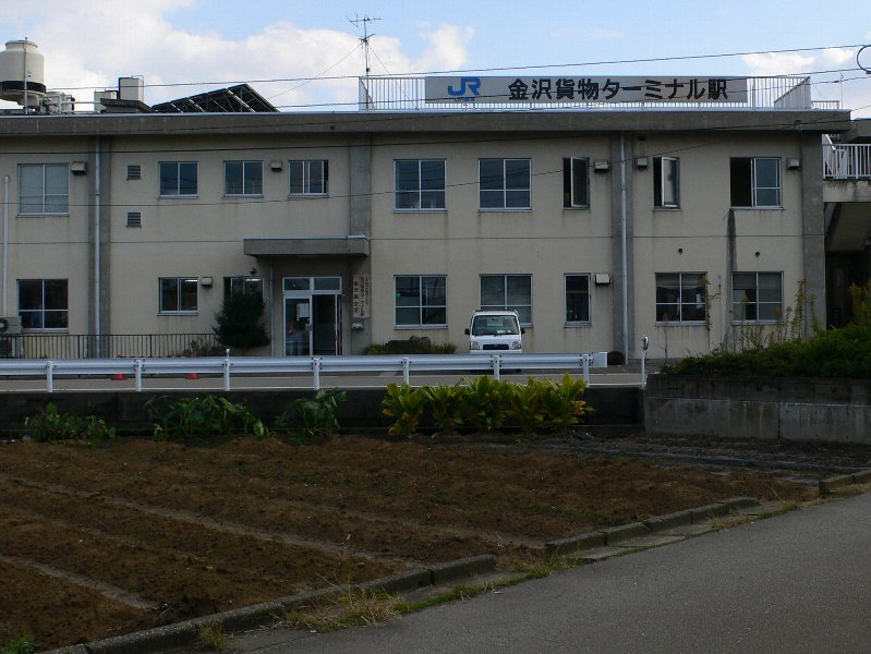 Kanazawa Freight Terminal St.,Japan Freight Railway, Ishikawa, Japan.